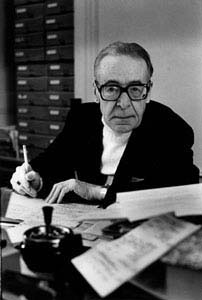 Henri Guillemin